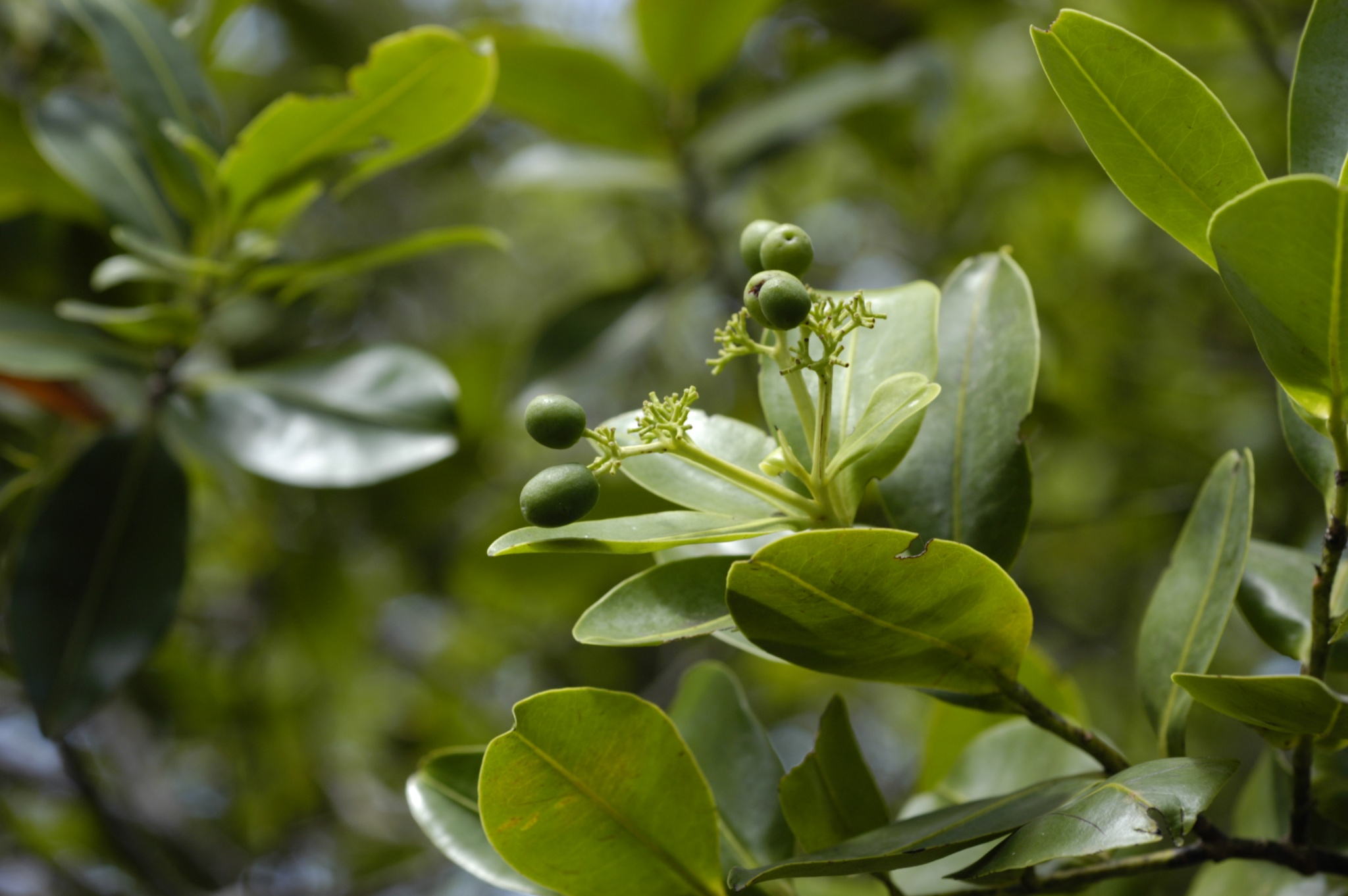 Fruits of Humiria balsamifera (Humiriaceae). Ajuruteua peninsula, Bragança, Pará, Brazil